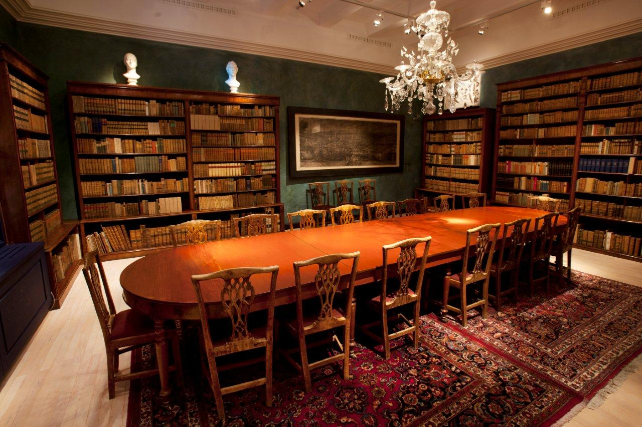 The Knudtzon room at the Gunnerus Library, which is part of the NTNU University Library, Trondheim, Norway